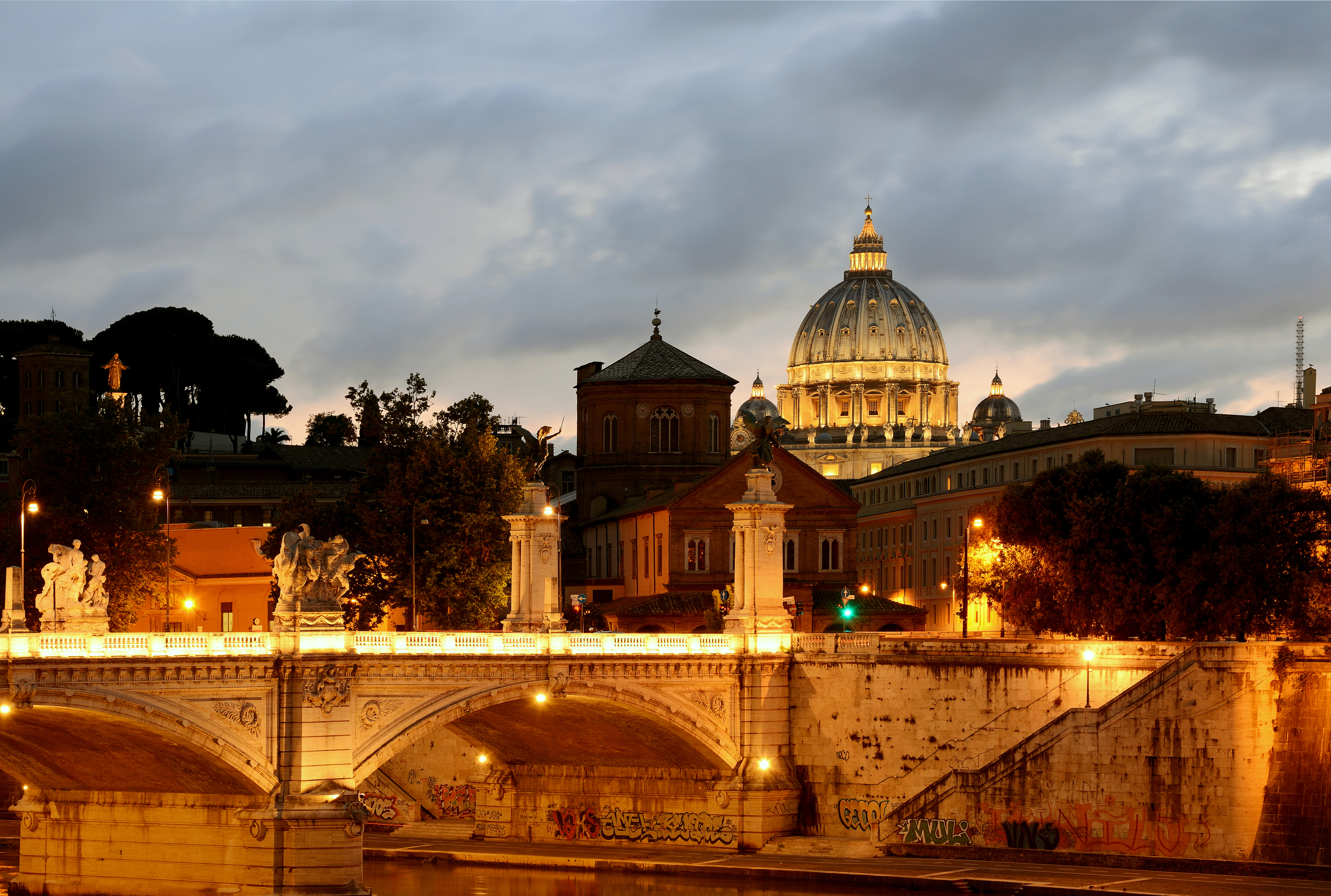 Bridge Vittorio Emanuele II at sunset